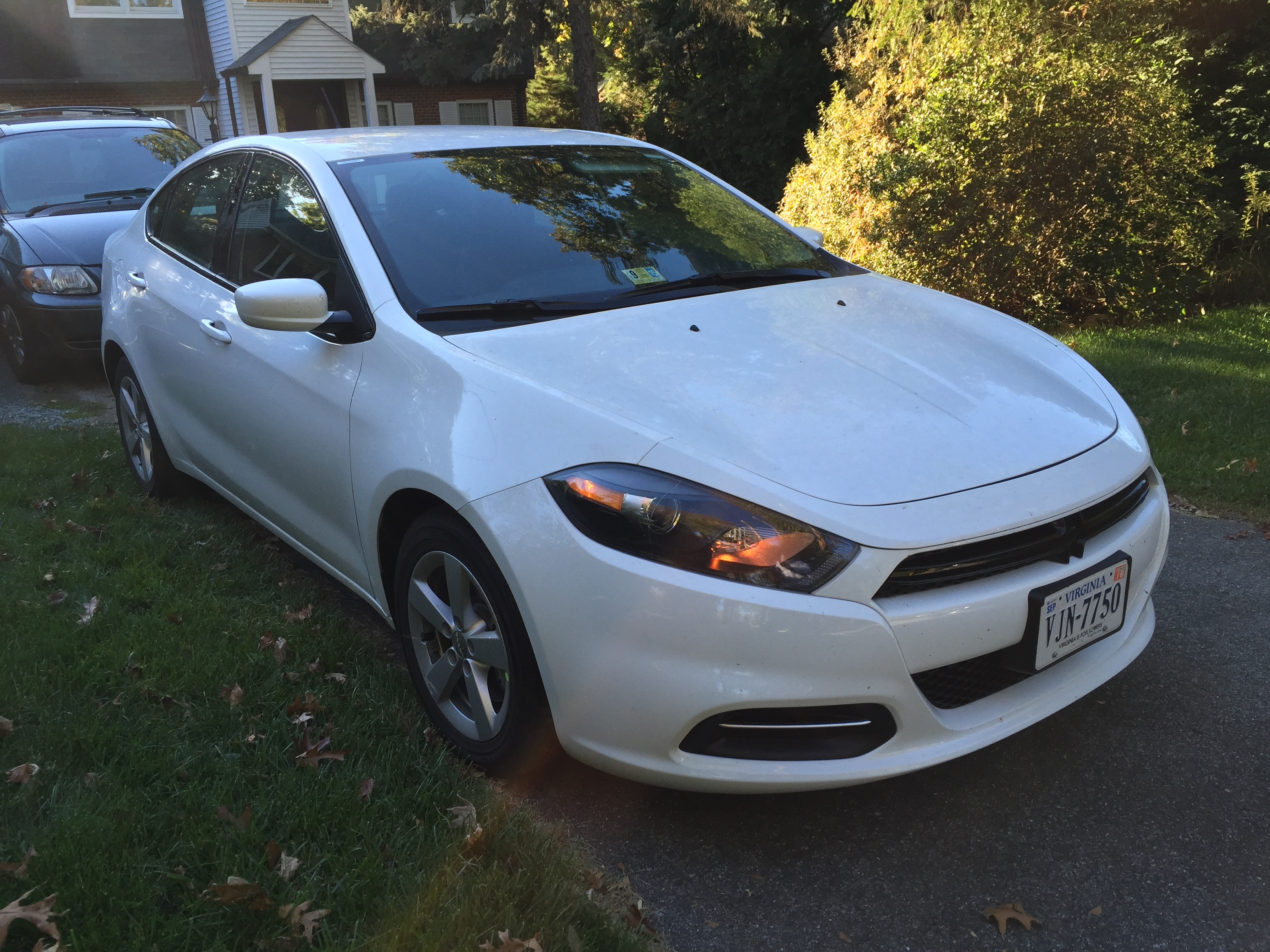 2016 Dodge Dart STX finished in white